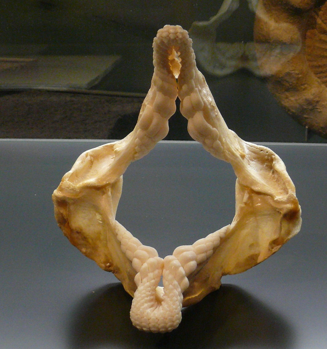 Jaws of Heterodontus portusjacksoni